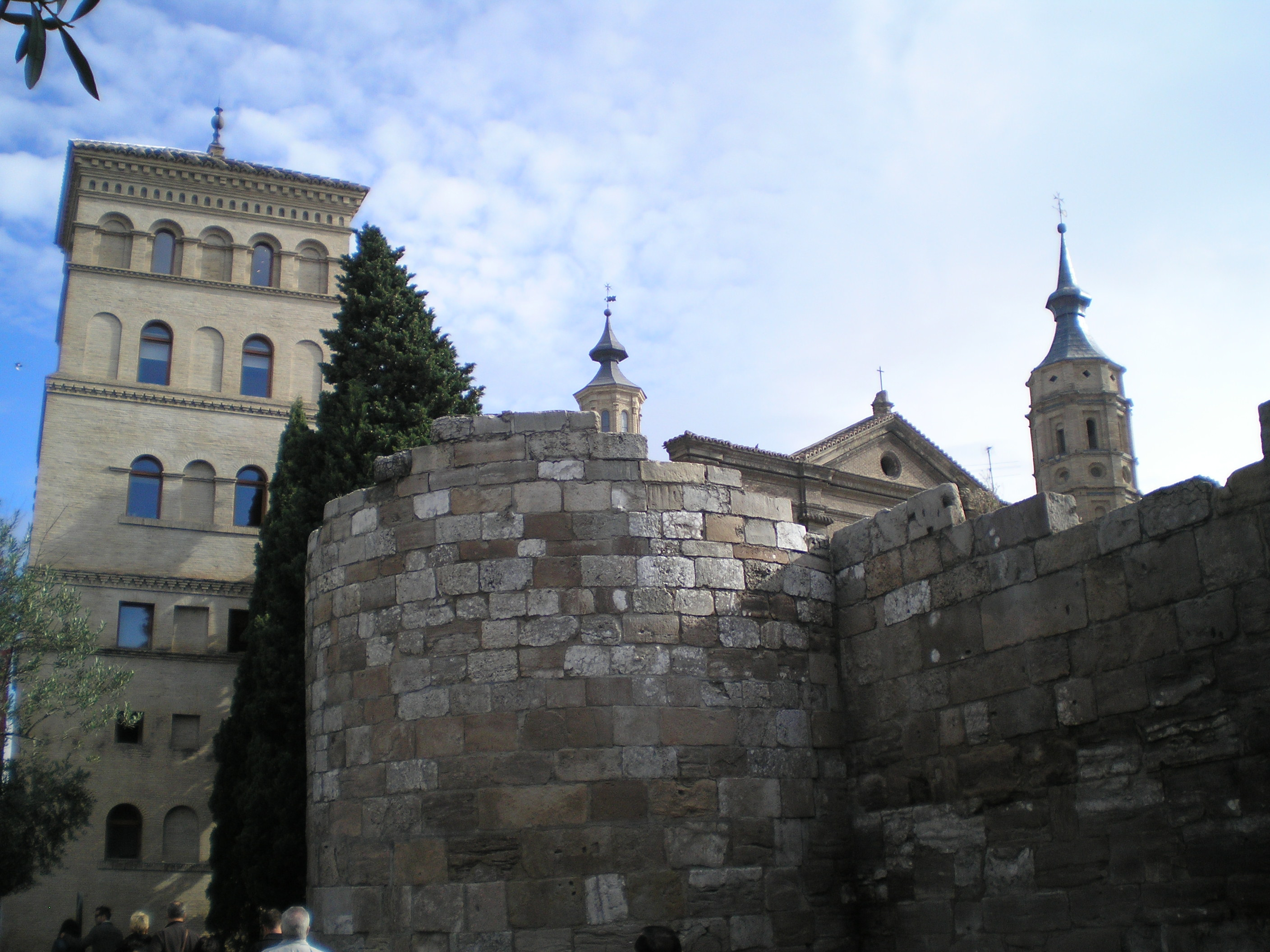 Old Roman city walls ant Zuda tower in Zaragoza.